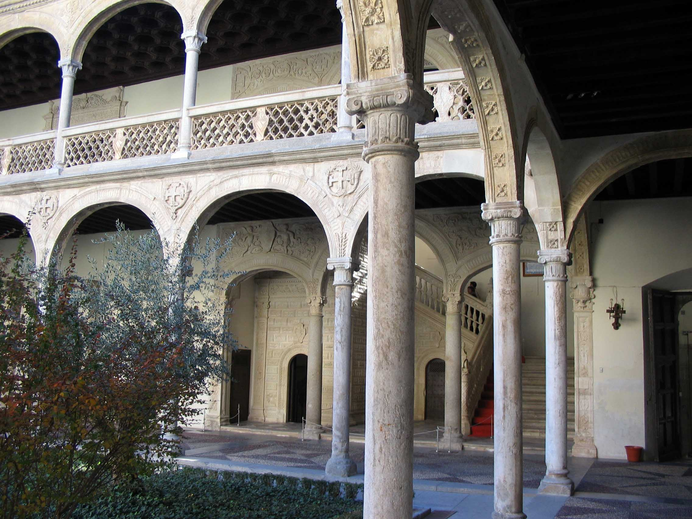 Former Hospital of Santa Cruz, Toledo, Spain. Spanish Renaissance period architecture.